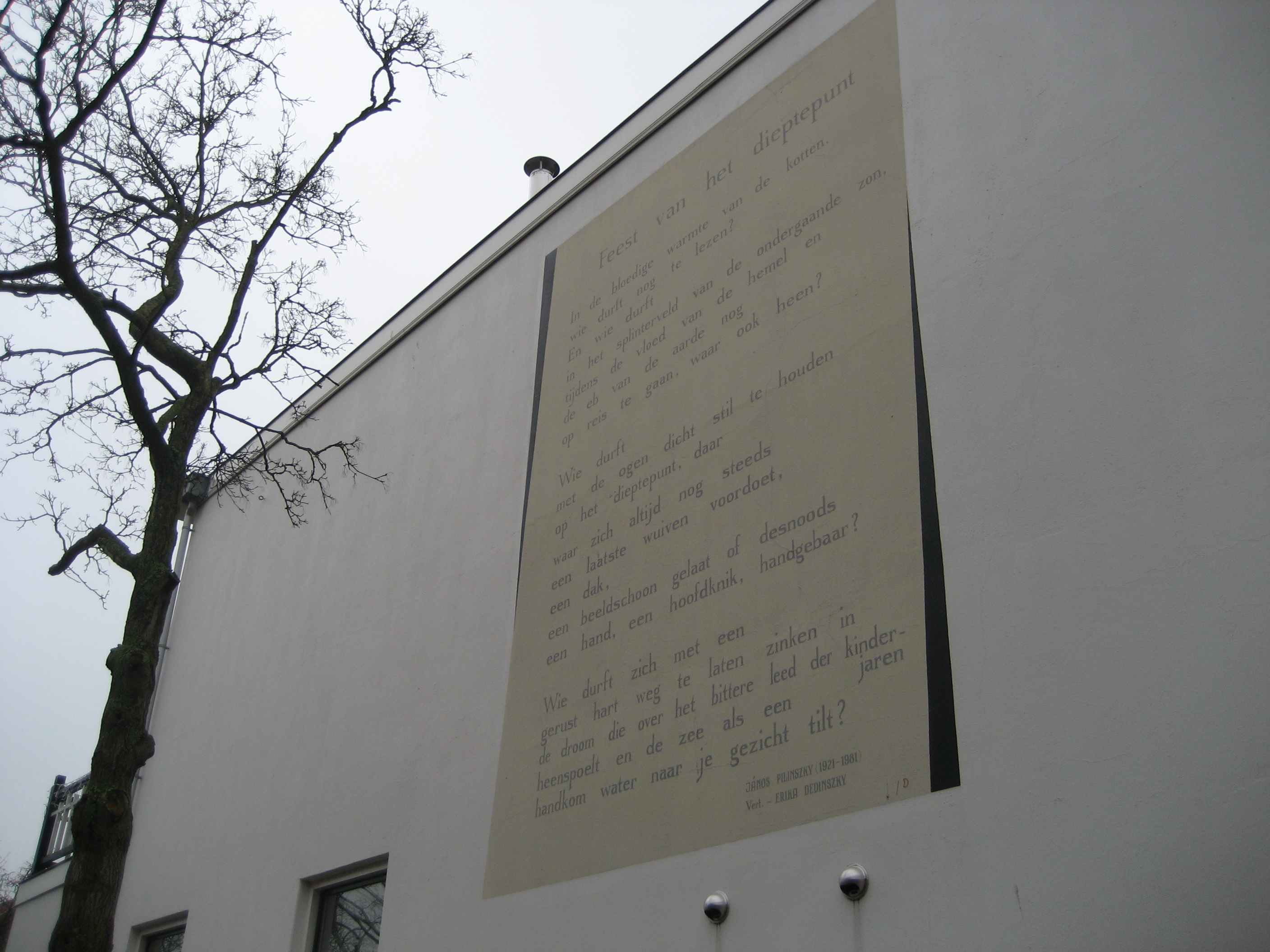 János Pilinszky: A mélypont ünnepélye (Feest van het dieptepunt) Poem on a wall in Leiden (corner Lijsterstraat and Rijnsburgerweg)